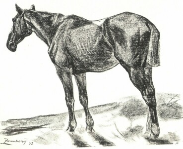 Sketch (horse)